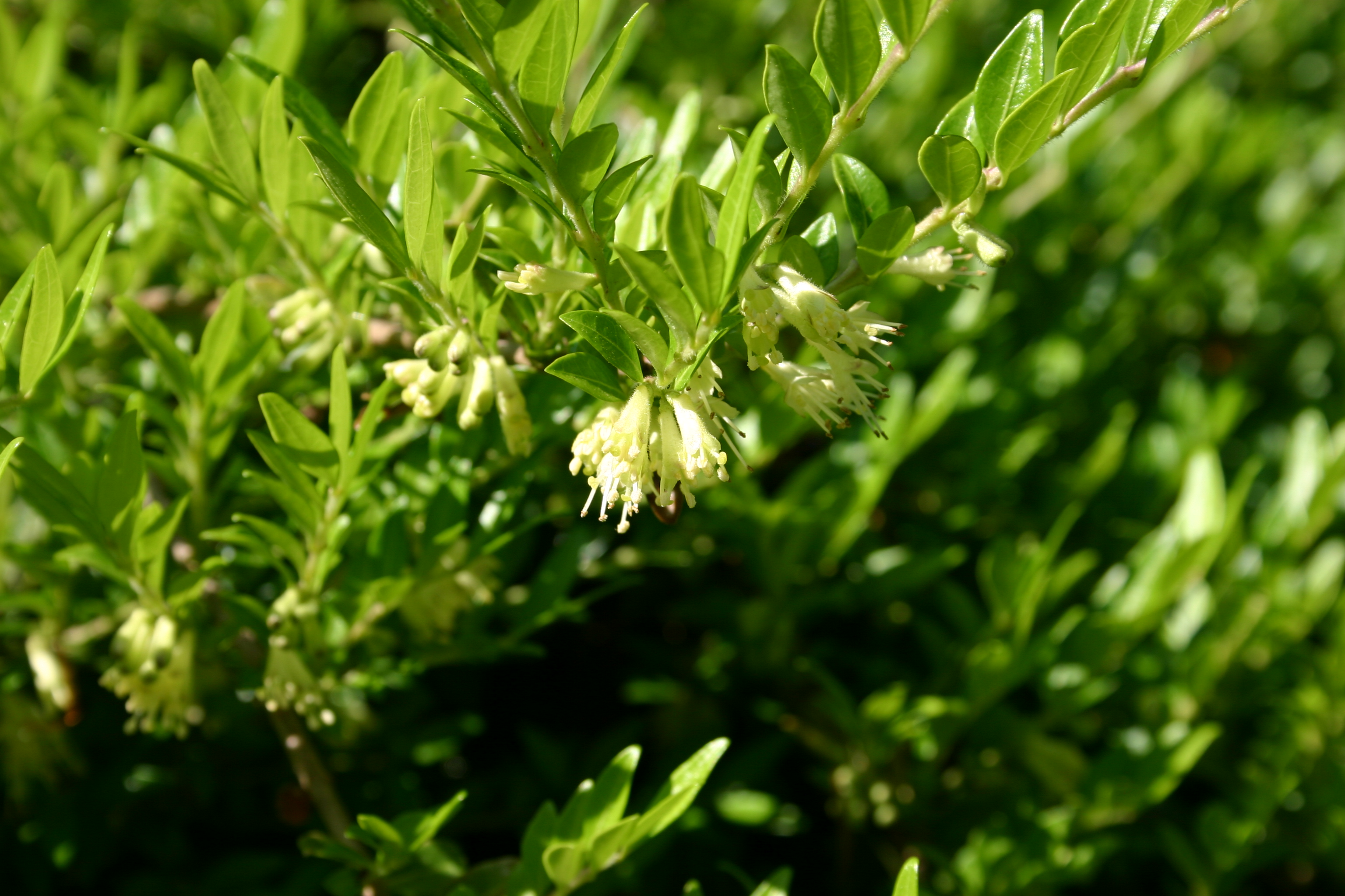 flowers of Lonicera pileata